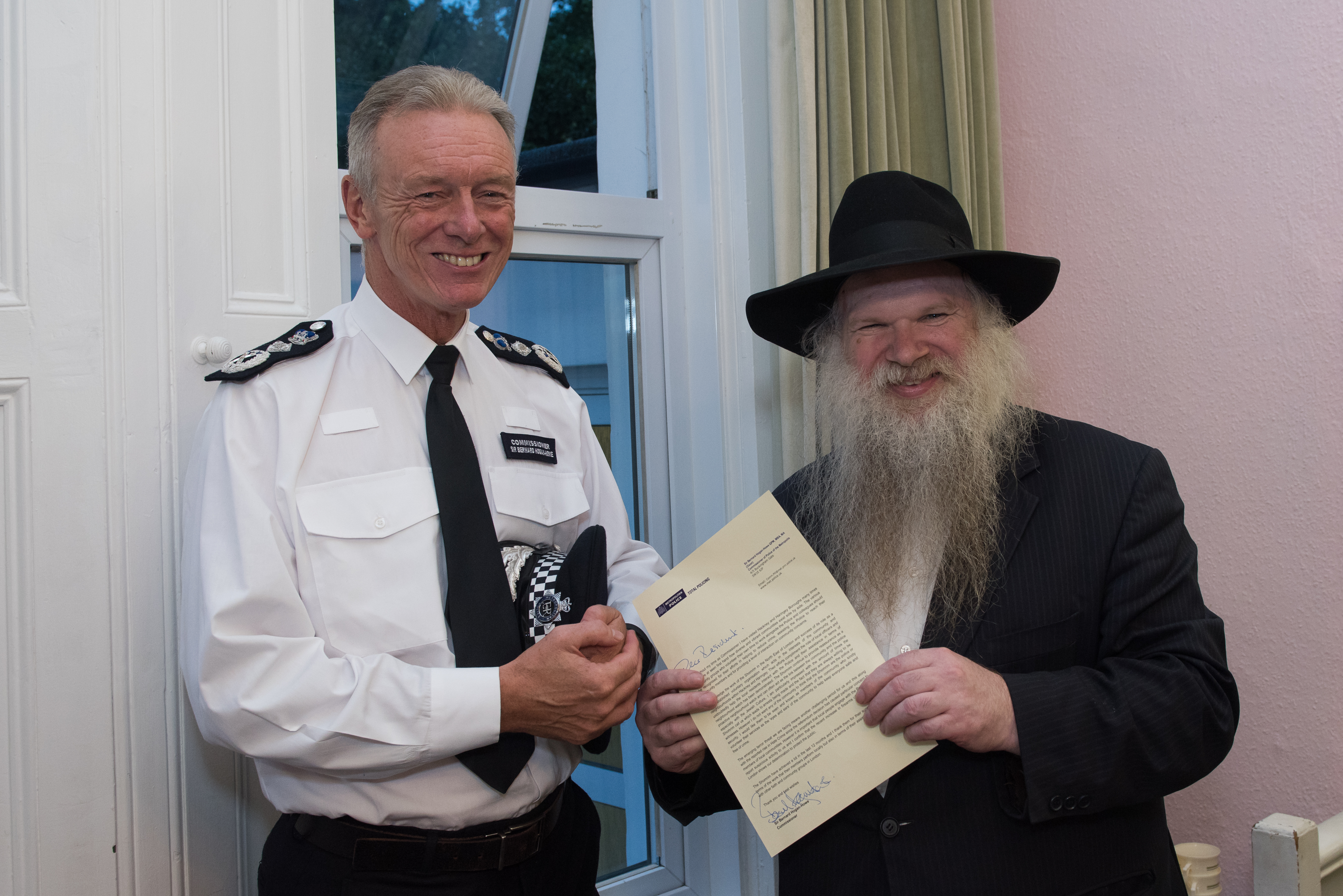 Rabbi Herschel Gluck OBE being presented with a letter of support for Shomrim in Stamford Hill, London, by the Metropolitan Police Commissioner, Sir Bernard Hogan-Howe, on 06-Sep-2016